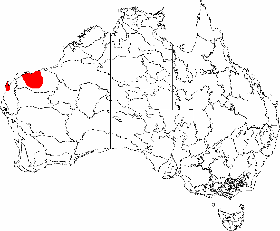 Distribution of Ningaui timealeya